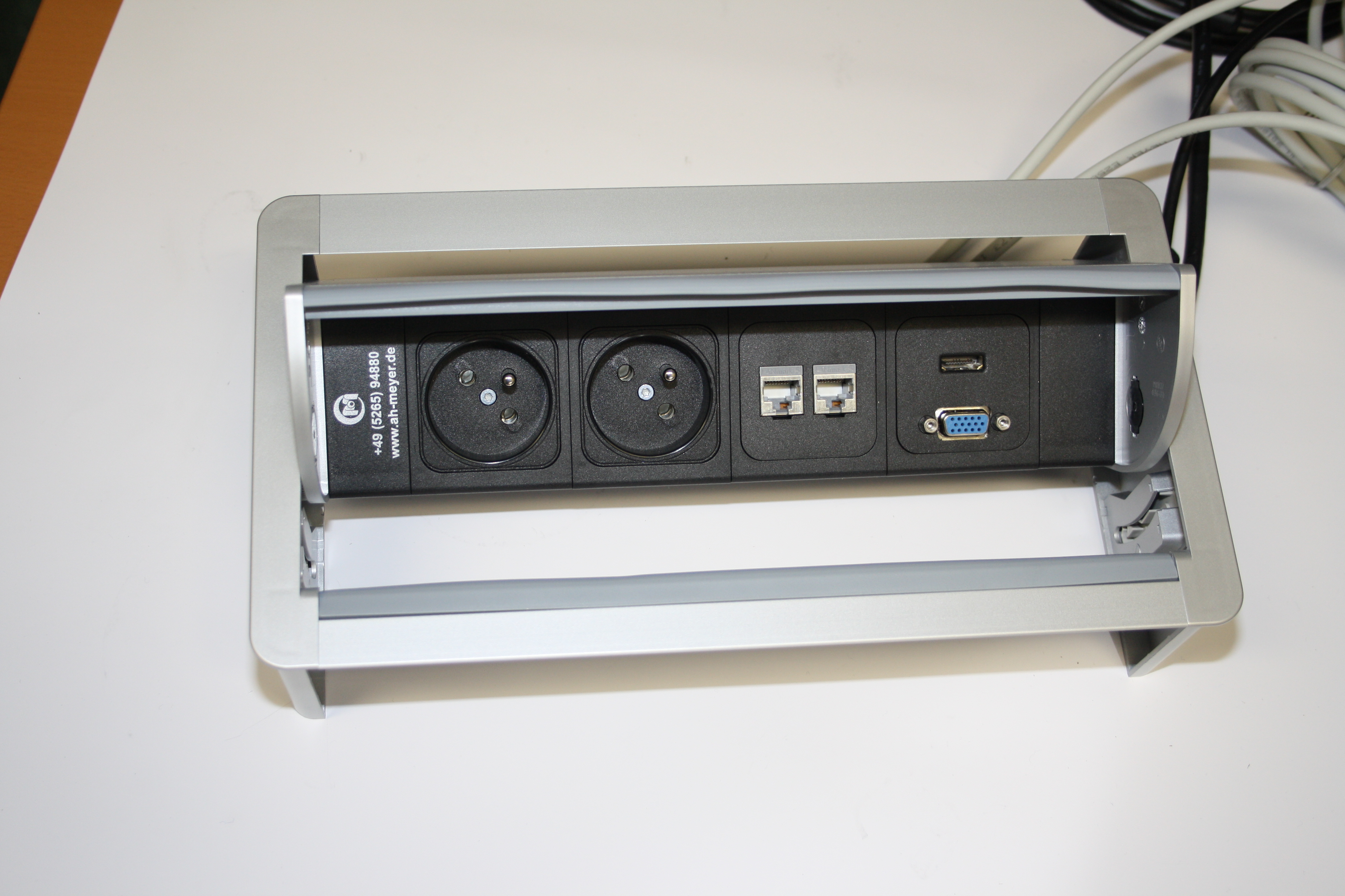 Box for mounting in furniture, more sockets